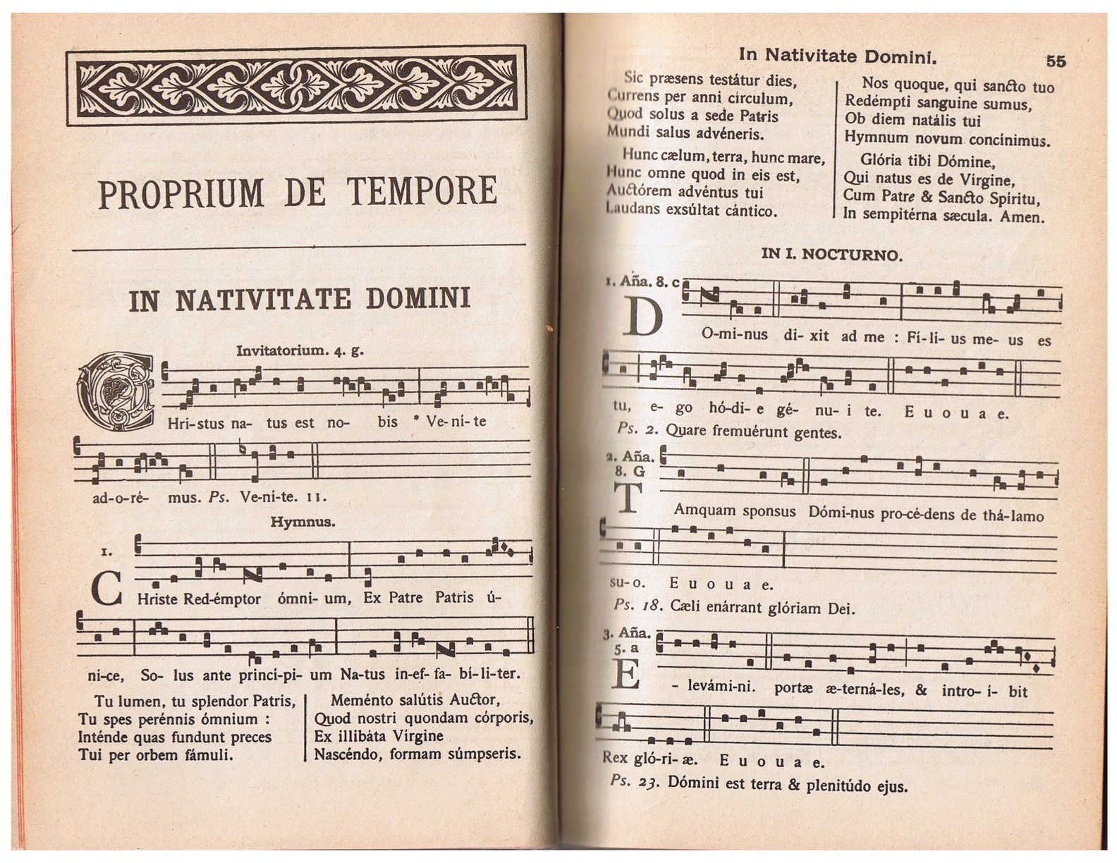 Gregorian chants for the night office of Christmas